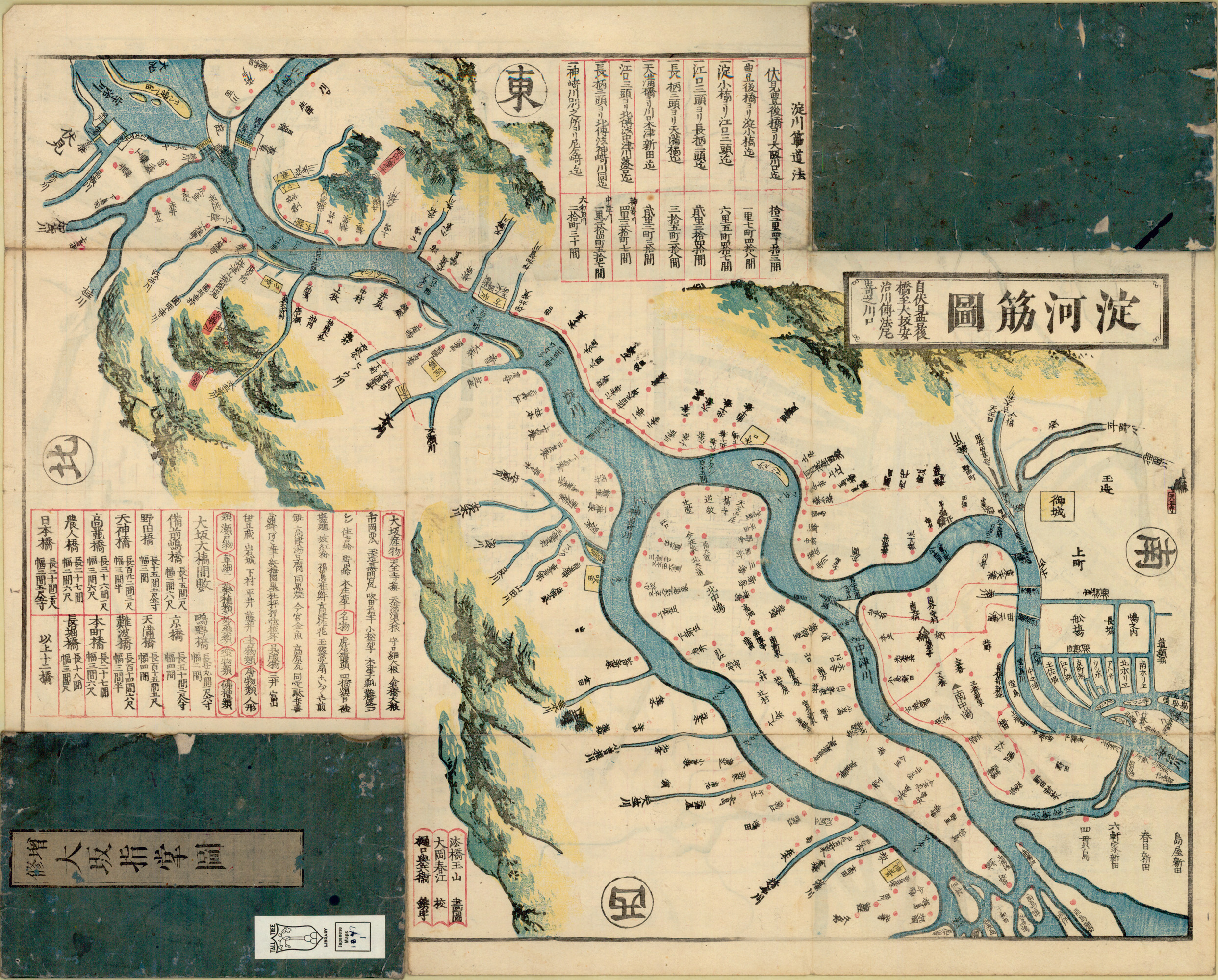 Alternative Title: Yodogawa suji no zu Creator: Okada, Shōyū, 1737-1812 Date Issued: 1847 Source: University of British Columbia Library - Rare Books and Special Collections. Japanese Maps of the Tokugawa Era. Permanent URL: Project website